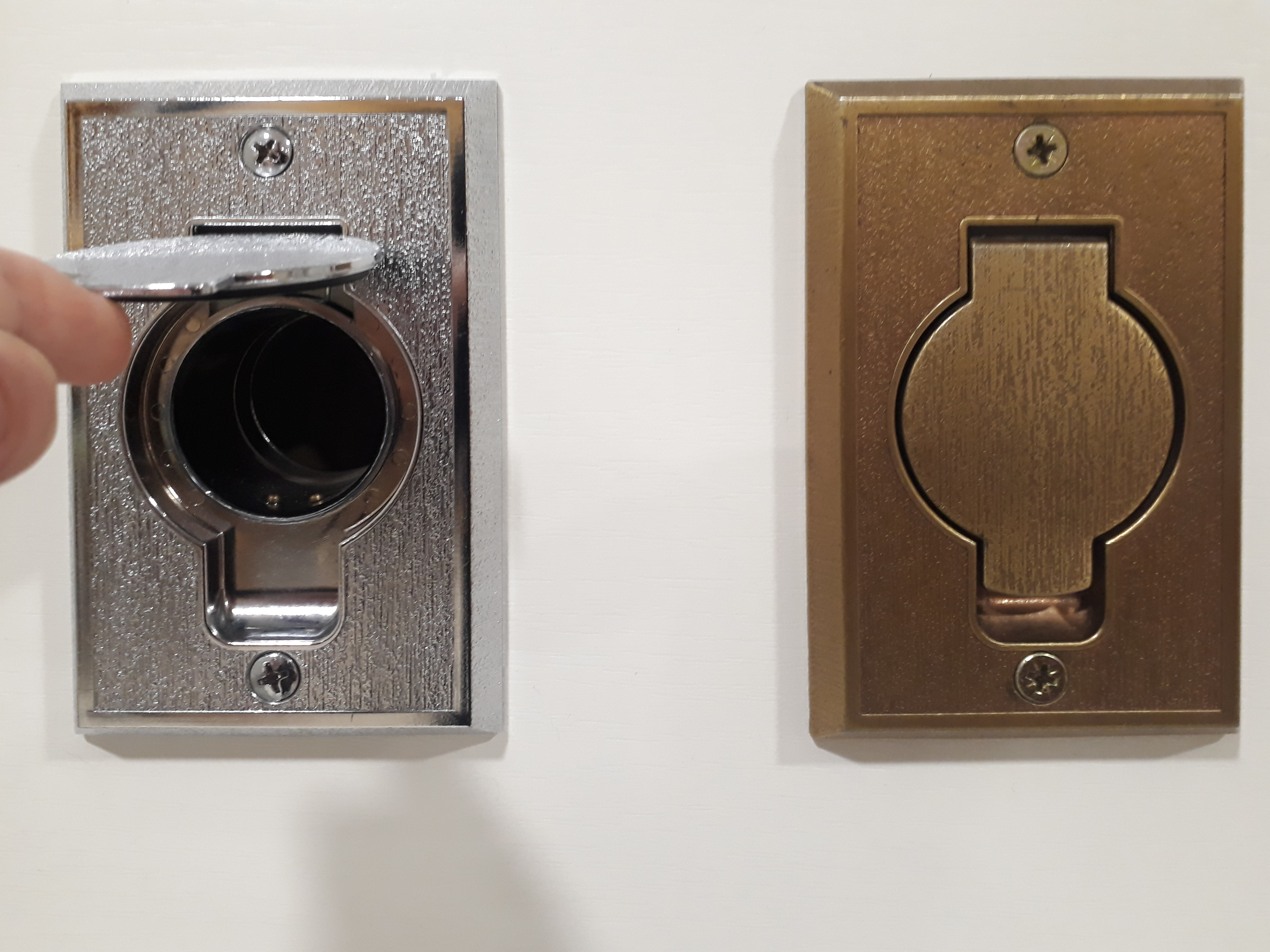 Elegant central vacuum cleaner part